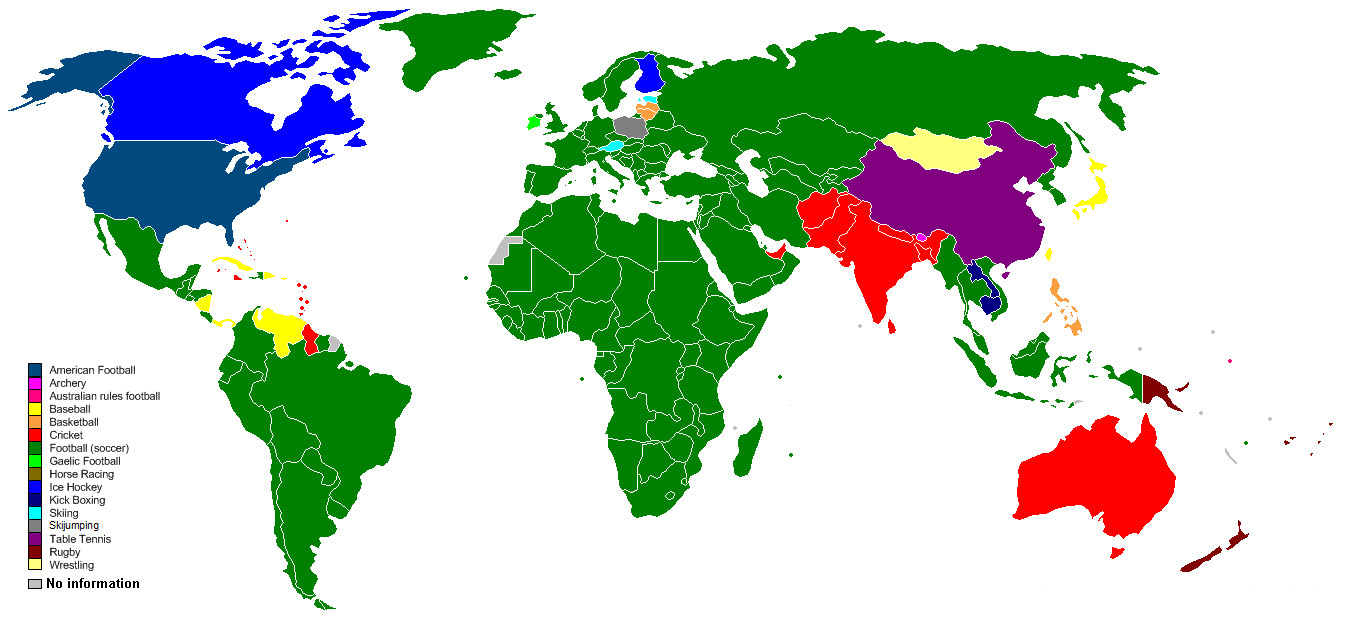 Football Source: National Geographic Society Map June 2006 Edition "Soccer United the World"